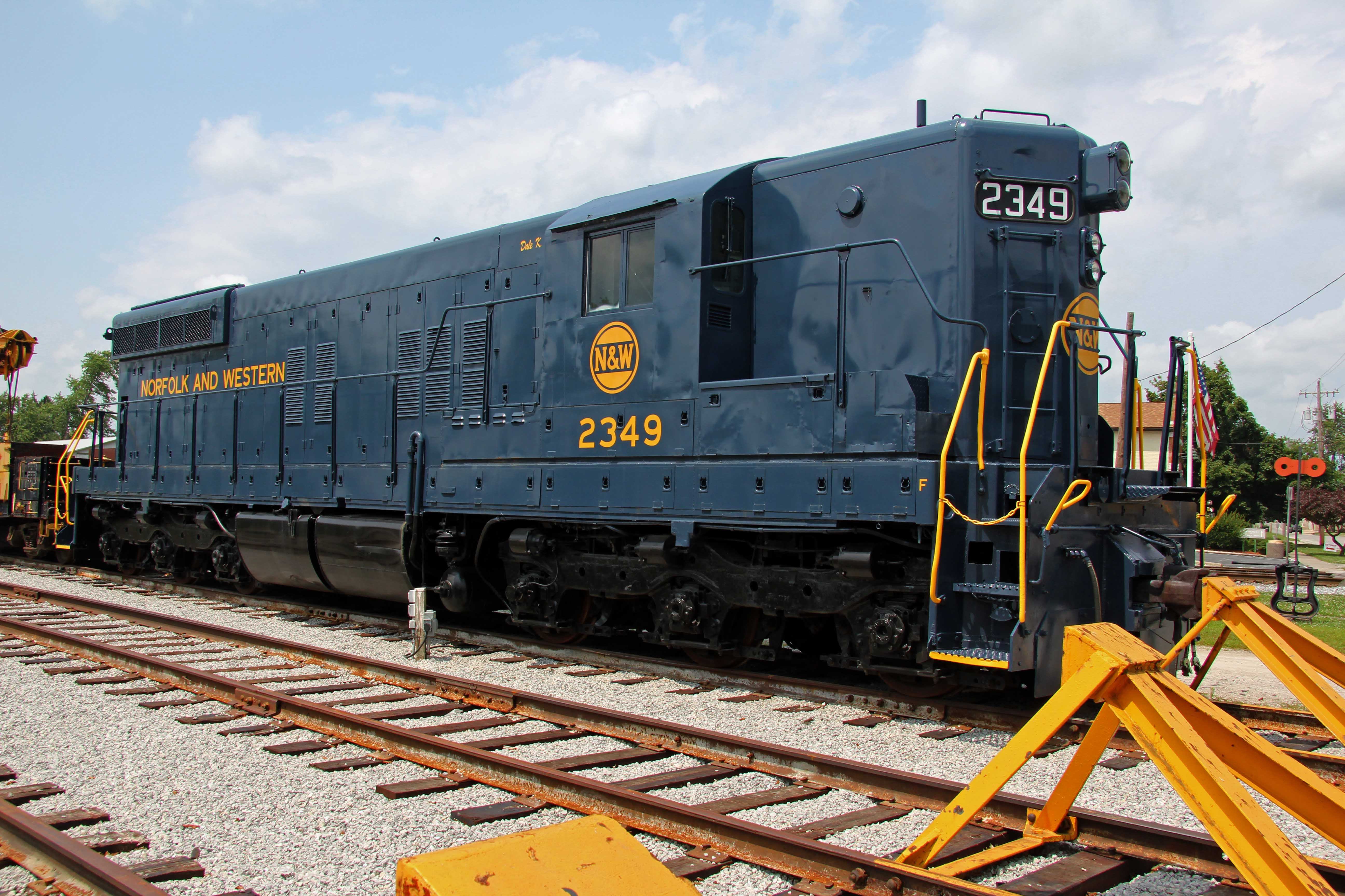 One of the many interesting displays at the Mad River & NKP Railroad Museum in Bellevue, OH